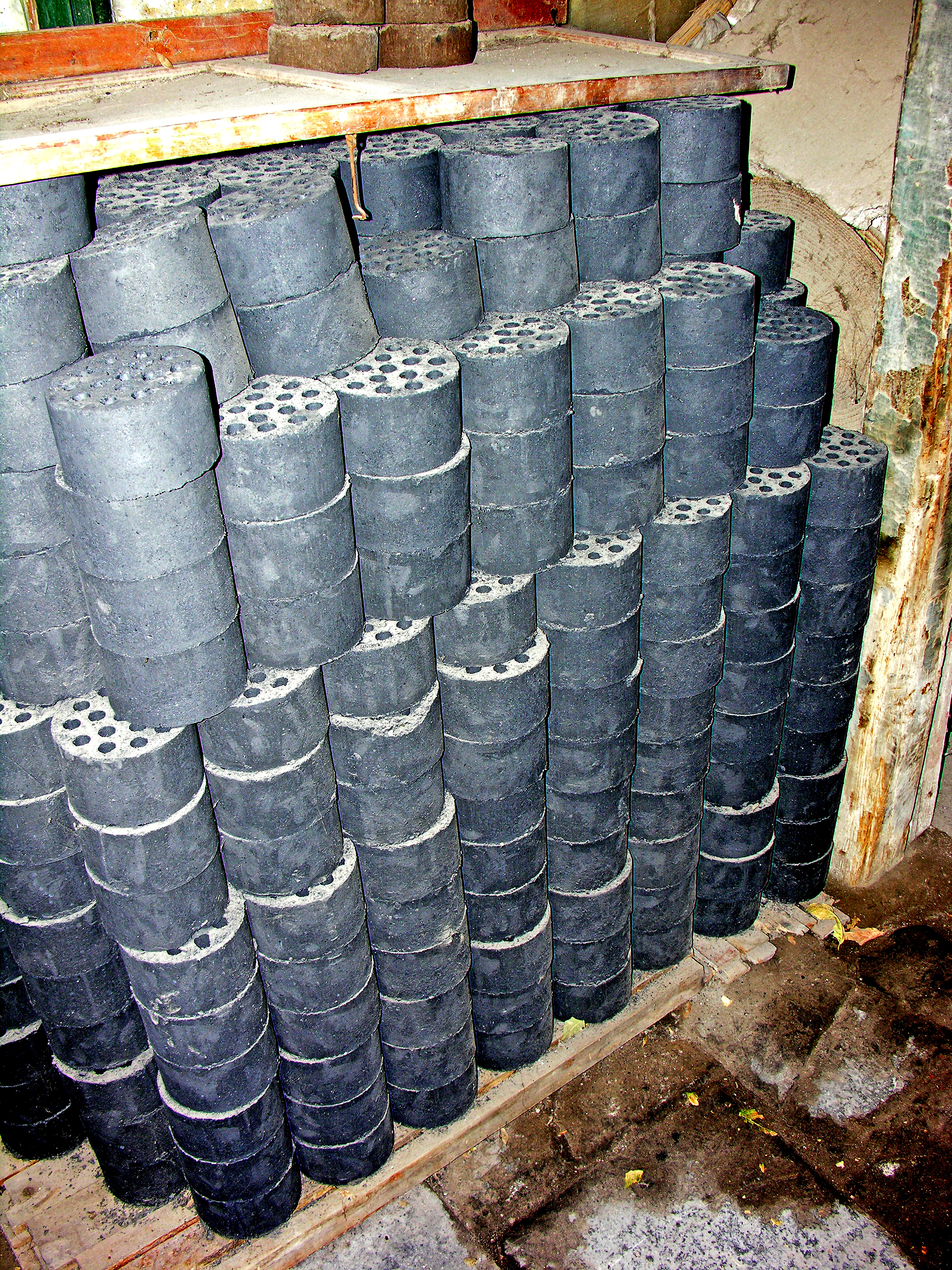 These are made of coal to heat the house.